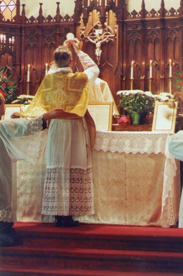 Bishop Richard Williamson of the Society of Pius X.